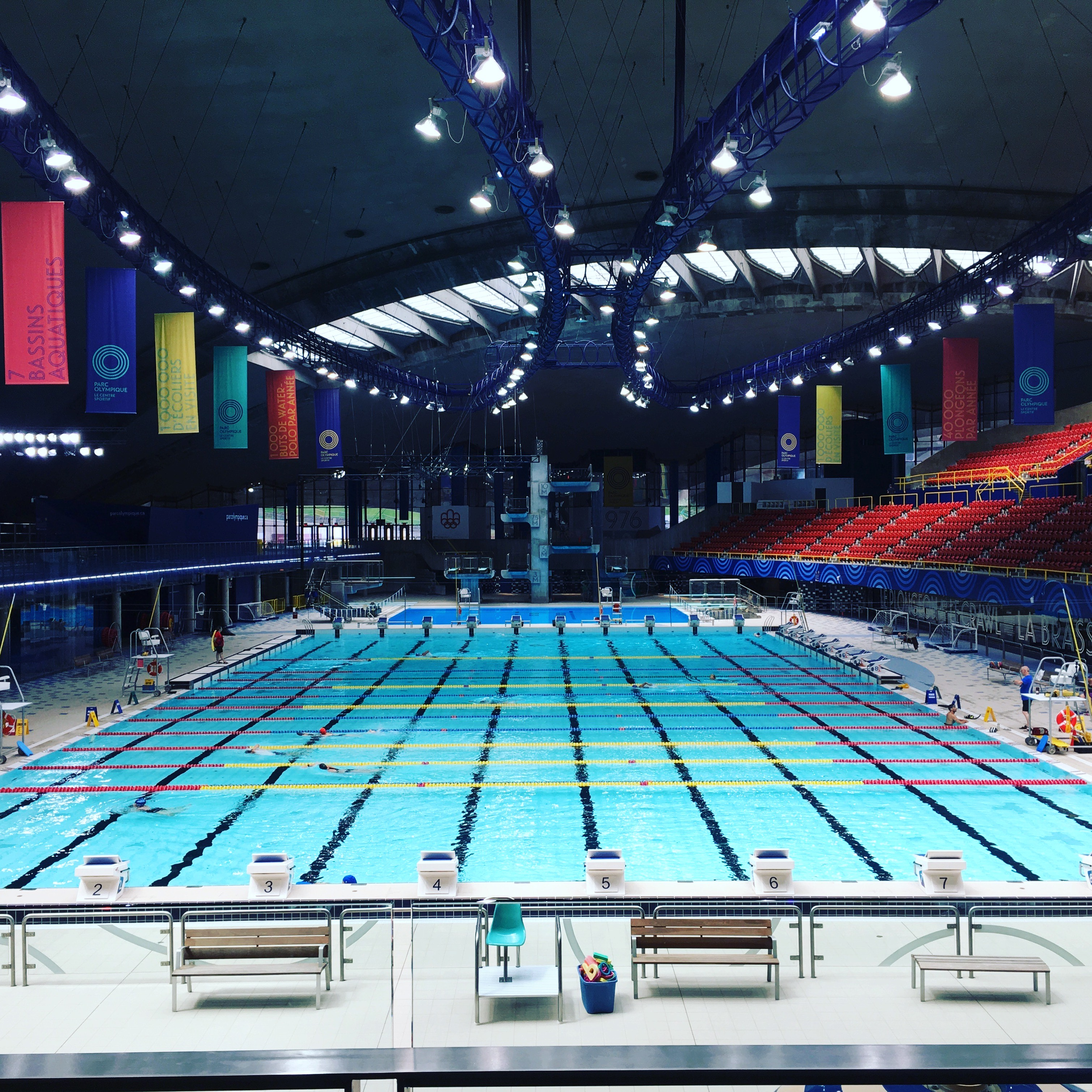 The olympic swimming pool within the olympic stadium in Montreal, Quebec, July 25 2017